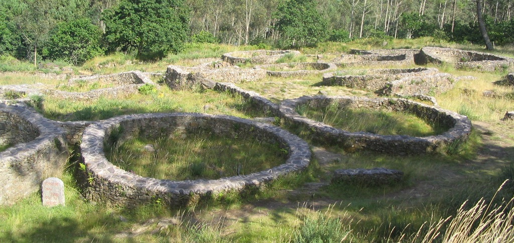 Please confirm whether this photo is taken of